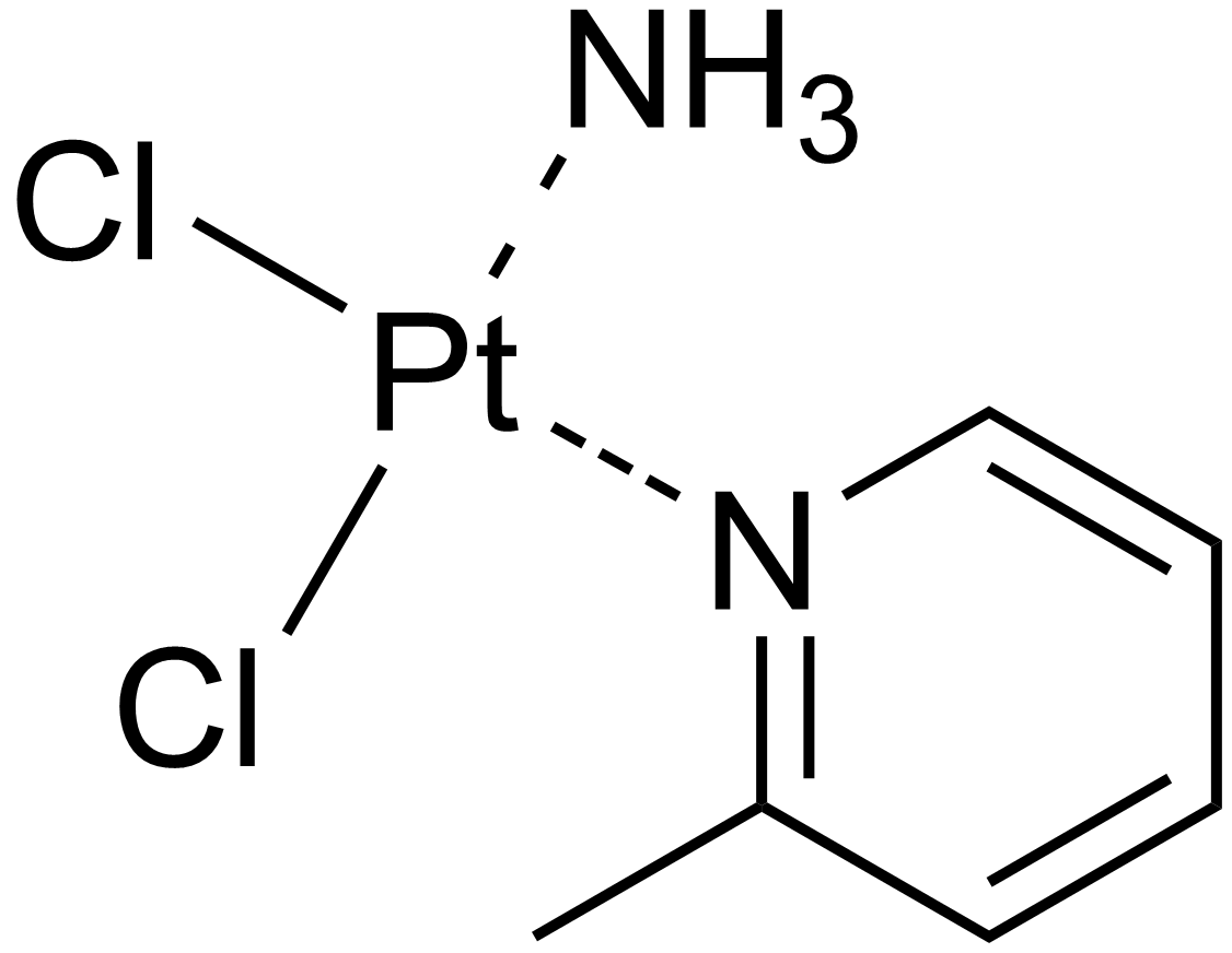 Chemical structure of picoplatin